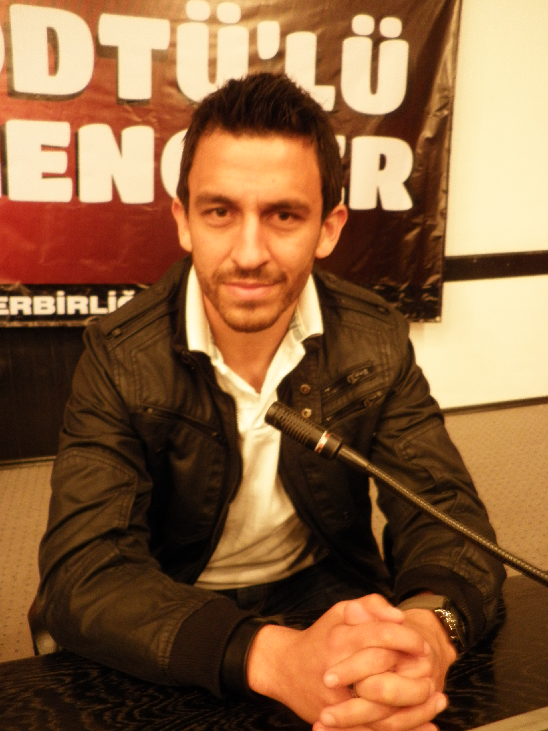 Randall Azofeifa, Costa Rican footballer at METU.